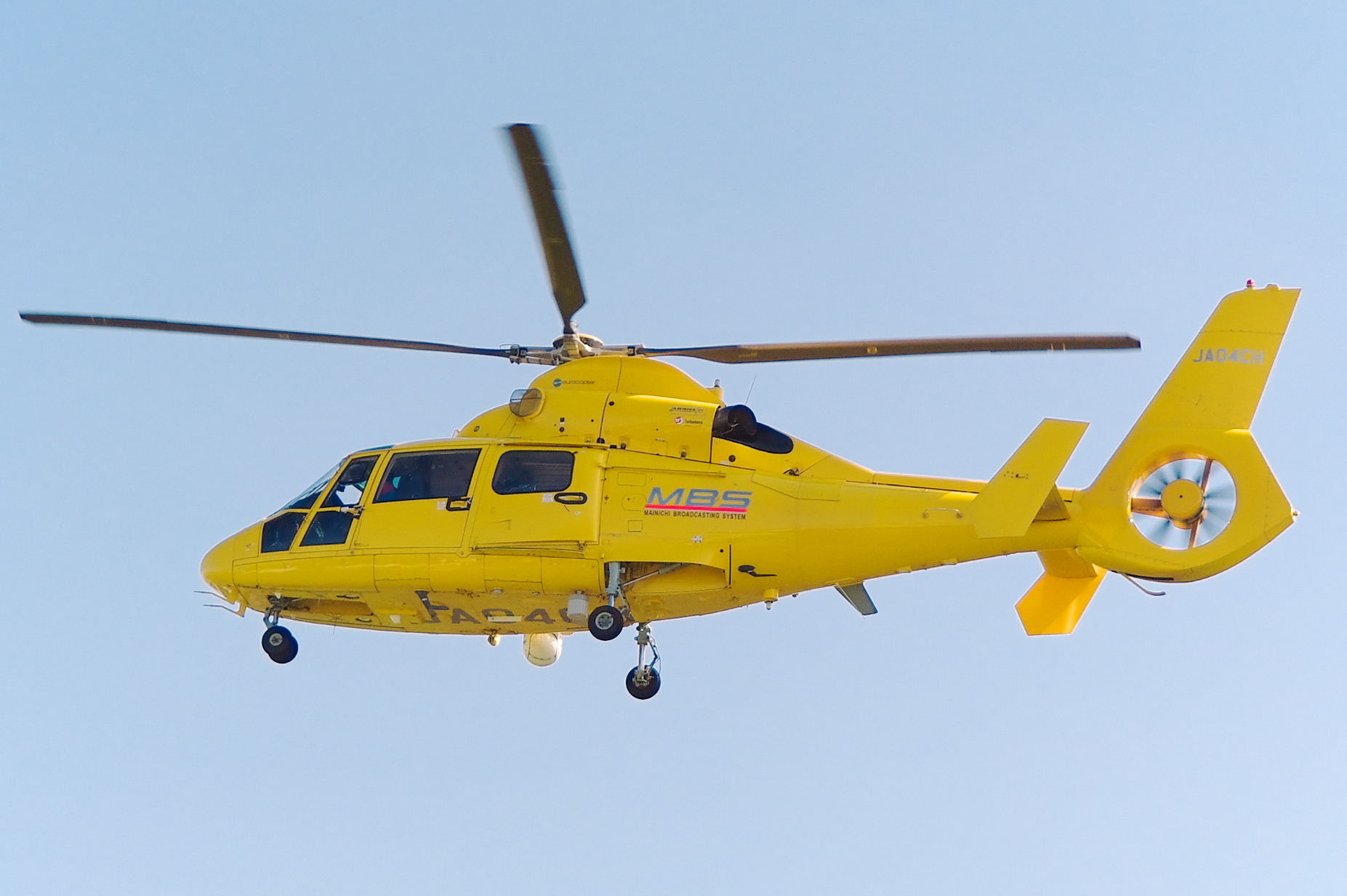 Photograph of Aero Asahi Corporation's Eurocopter AS365N3 (JA04CH) chartered by Mainichi Broadcasting System (MBS) for news gathering, descending for landing at Yao Airport in Yao, Osaka Prefecture, Japan.